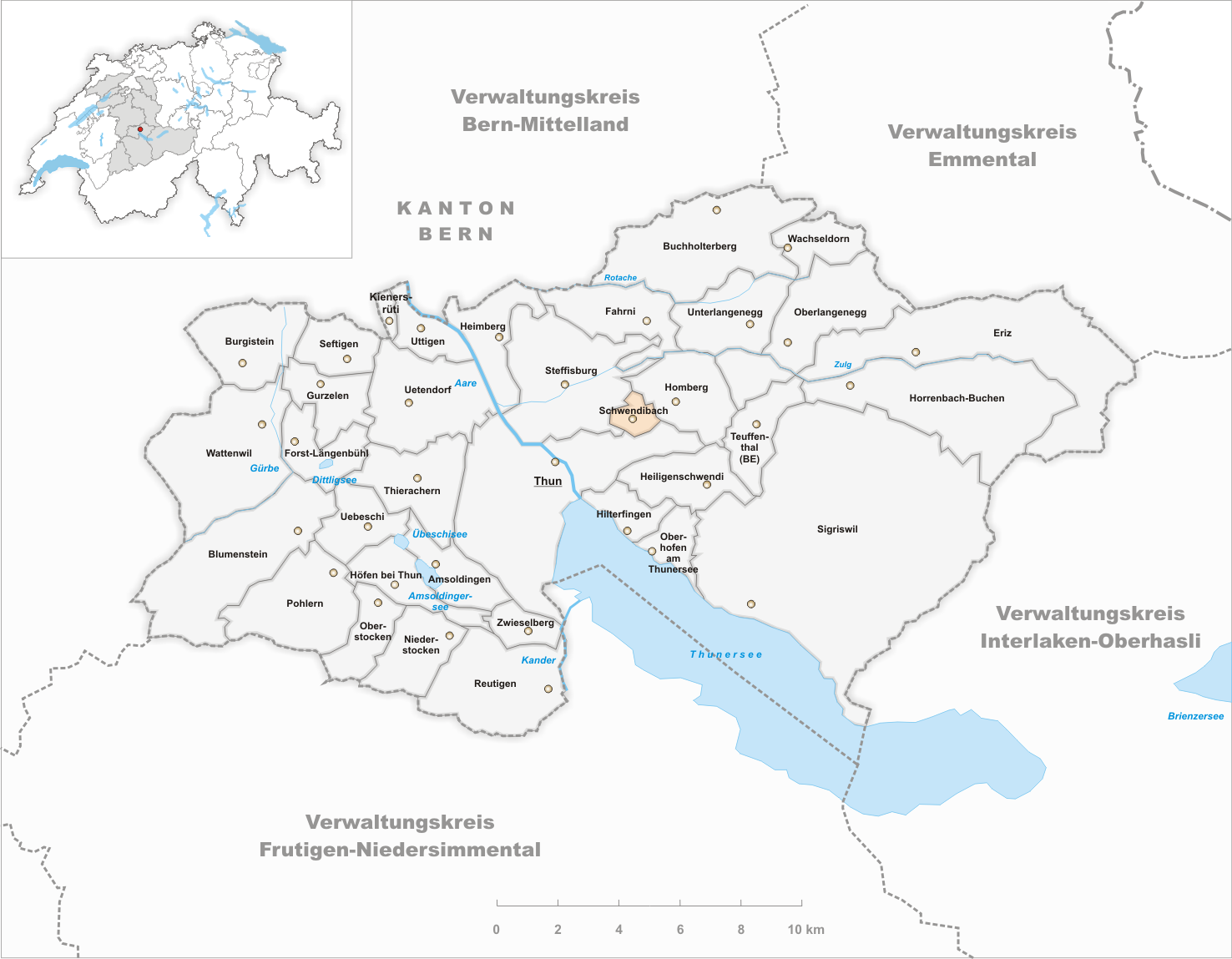 Municipality Schwendibach